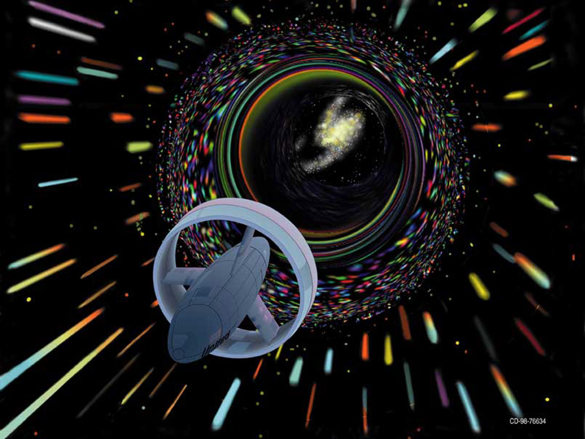 Digital art by Les Bossinas (Cortez III Service Corp.), 1998